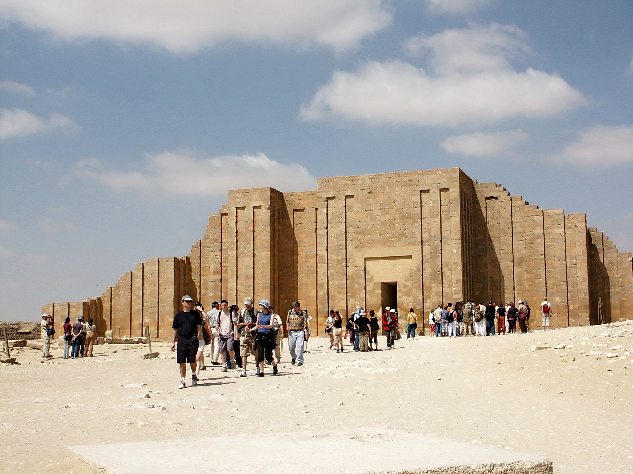 Entrance to the Step Pyramid 階梯金字塔入口